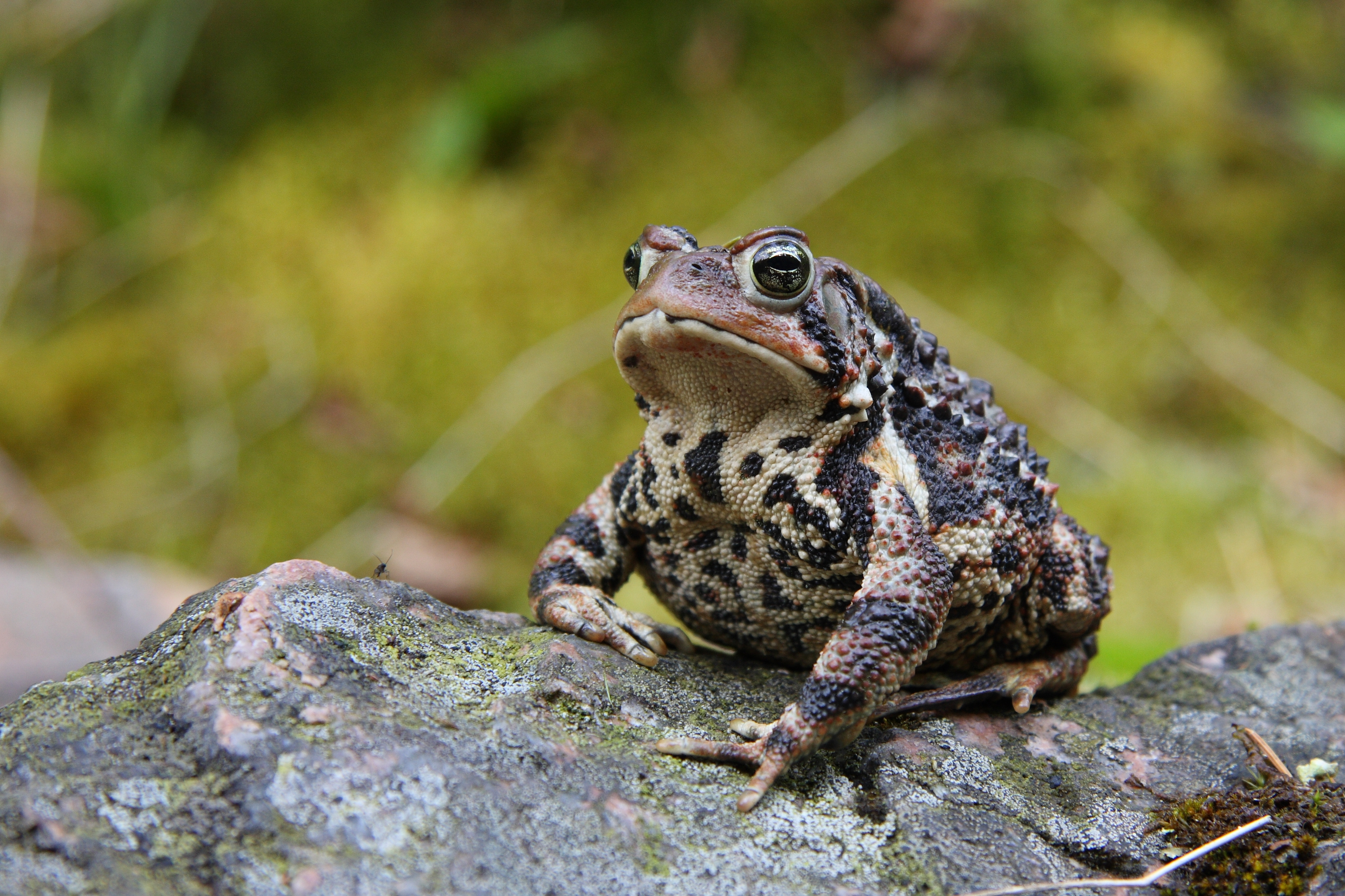 Eastern American Toad, Jacques-Cartier National Park, Quebec, Canada.